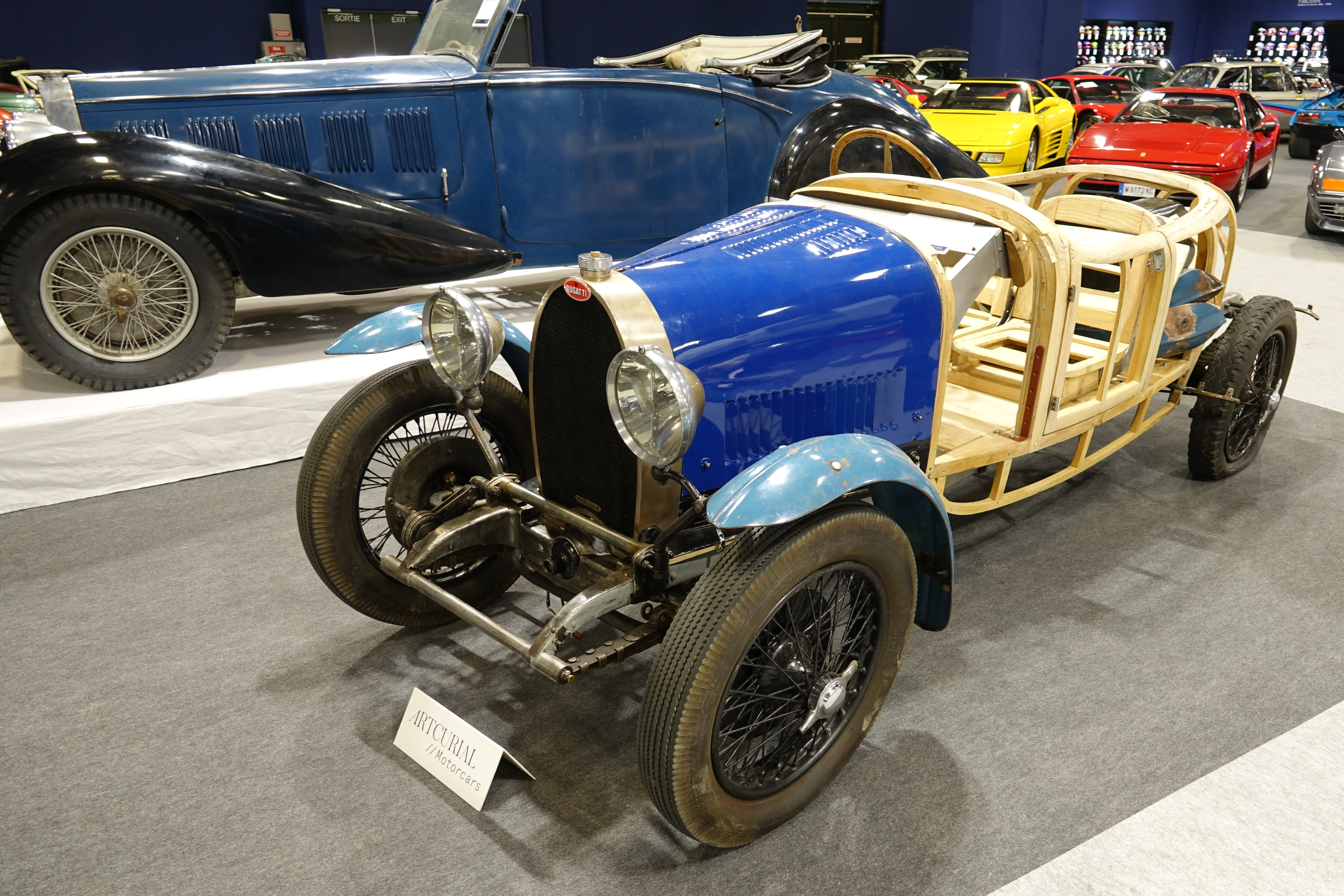 1929 Bugatti Type 40, Châssis n°40719 , sold for Sold 190,720 € at Artcurial at Retromobile 2019.[1]